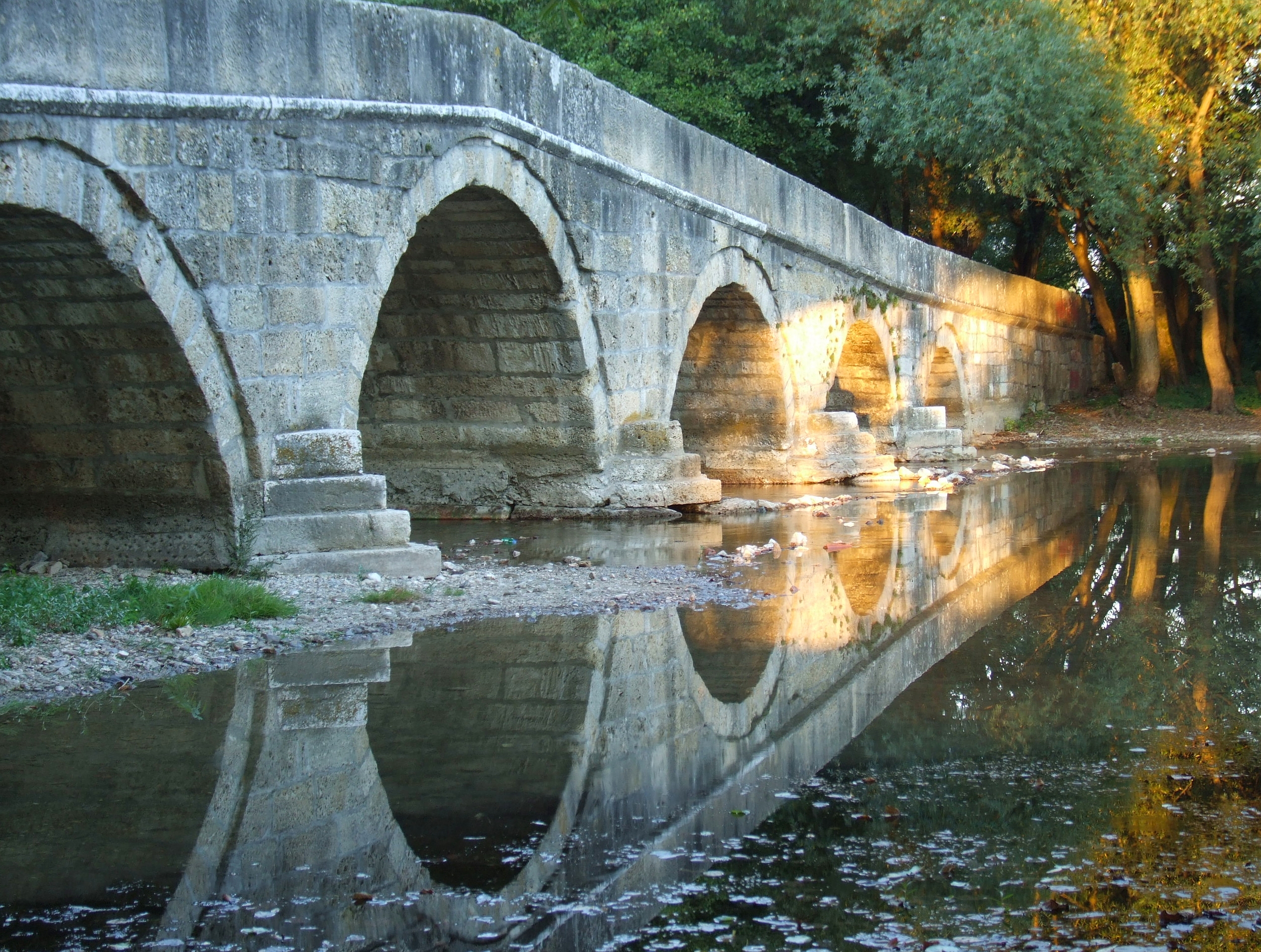 Ilidža, Sarajevo - Roman bridge